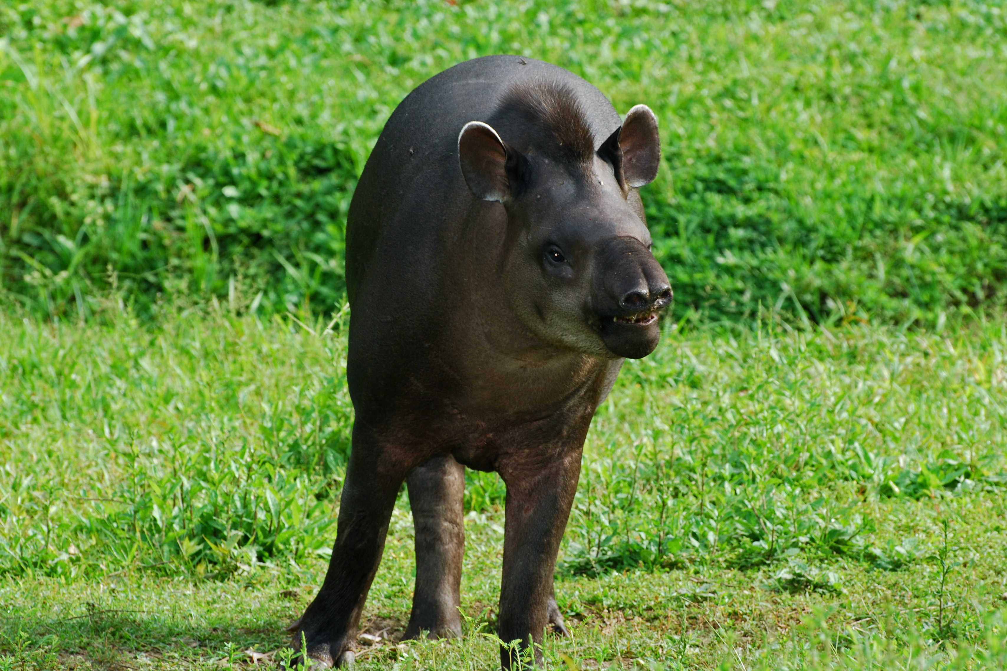 also known as Brazilian or lowland tapir Tapiridae: Tapirus terrestris Seen at Yarina Lodge, Napo, Ecuador